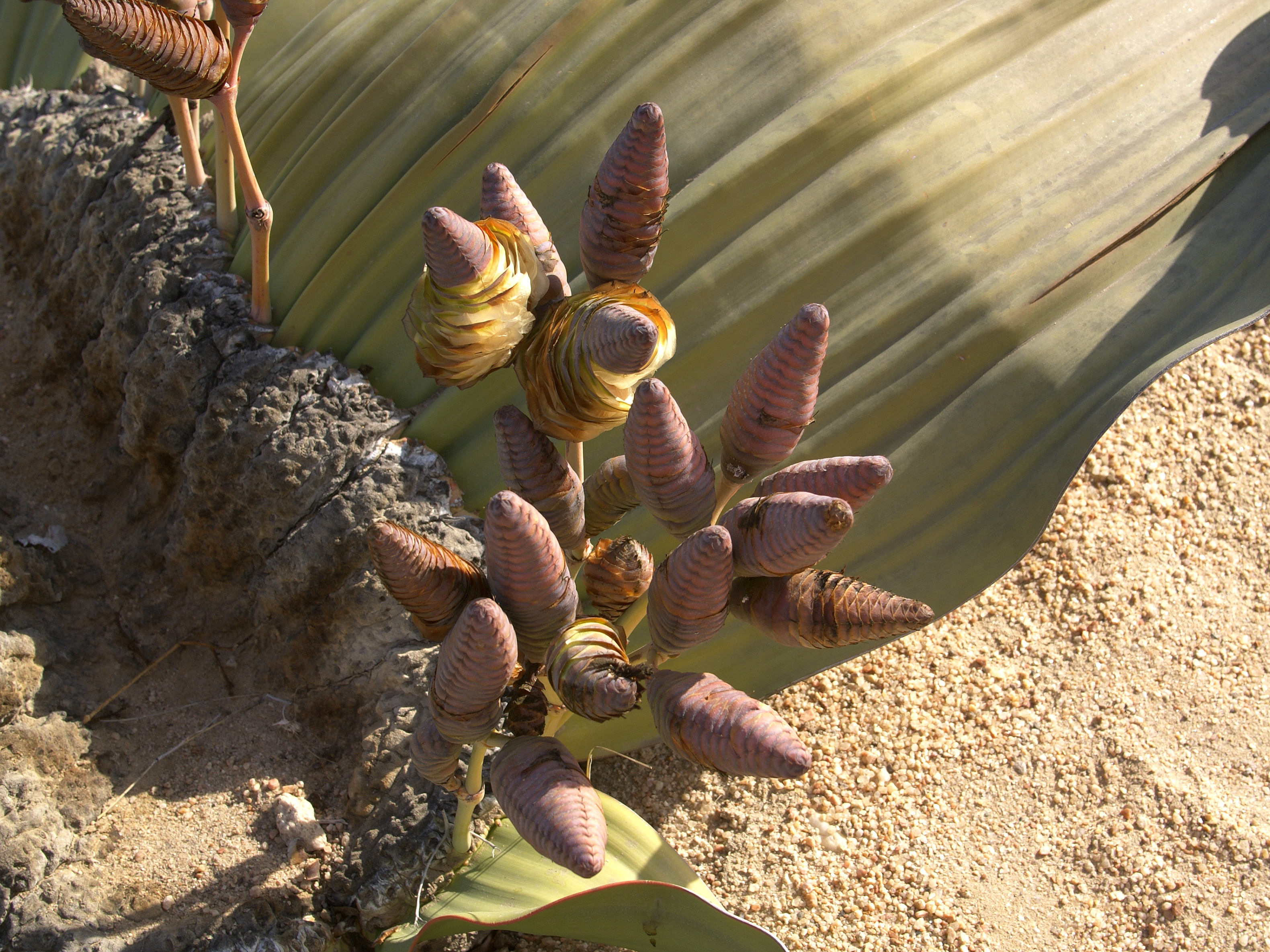 Female cones of a female Welwitschia plant at Welwitschia Plains, Erongo Region, Namibia. The plants are dioecious, i.e. either male or female, and the winged seeds develop inside the female cones. This plant's cones are about ripe, and some of them are beginning to shed their seeds.